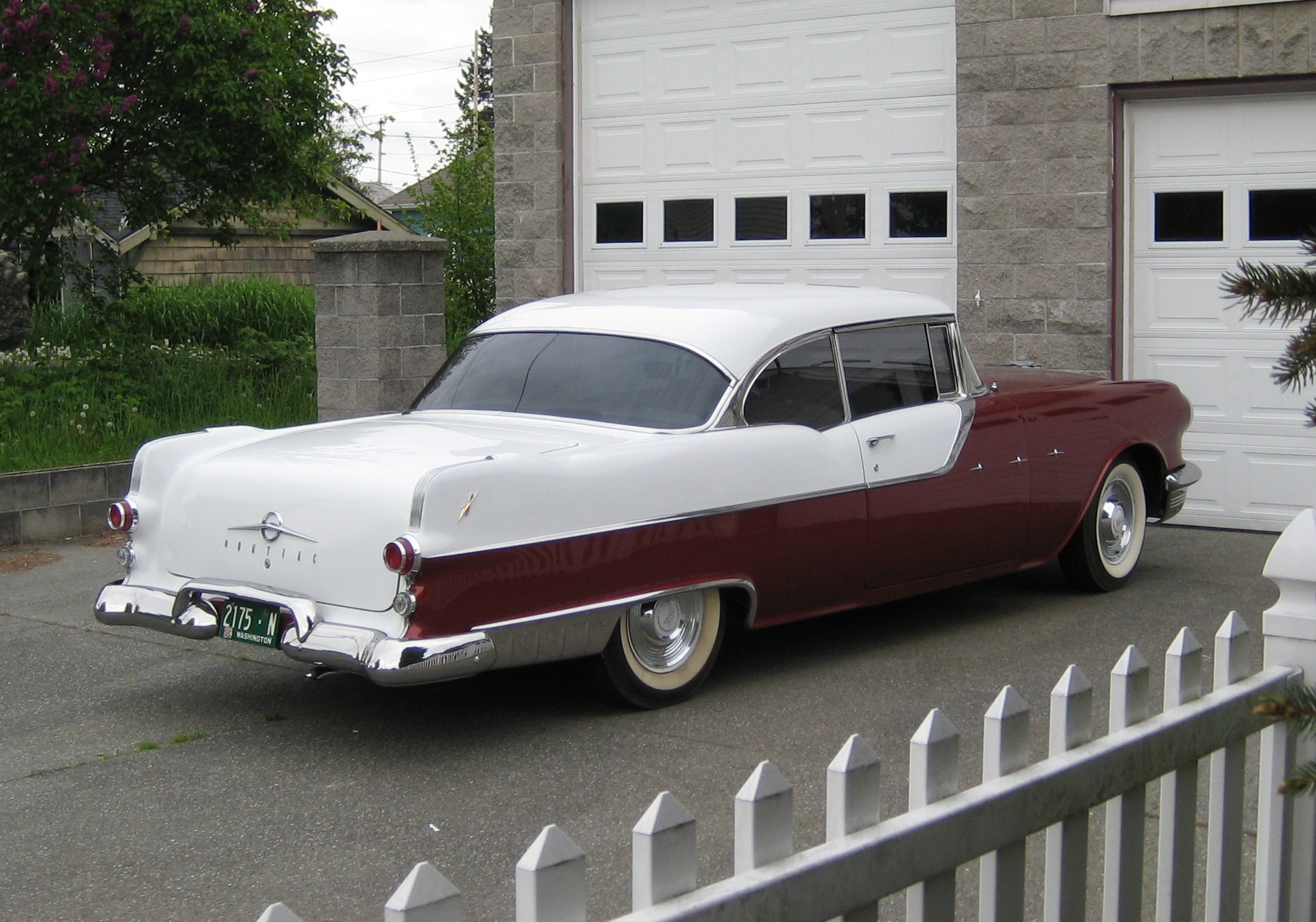 The big long version!